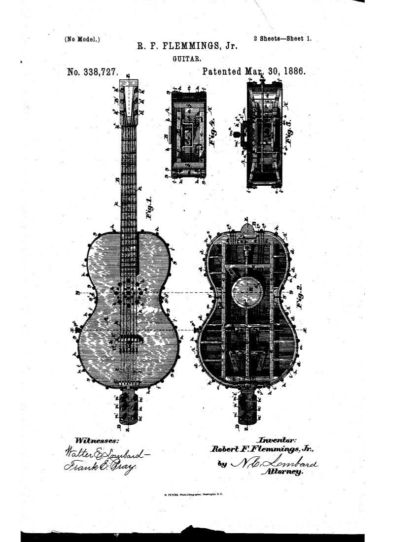 A scanned picture of an Euphonica, taken from the first page of US patent 338727